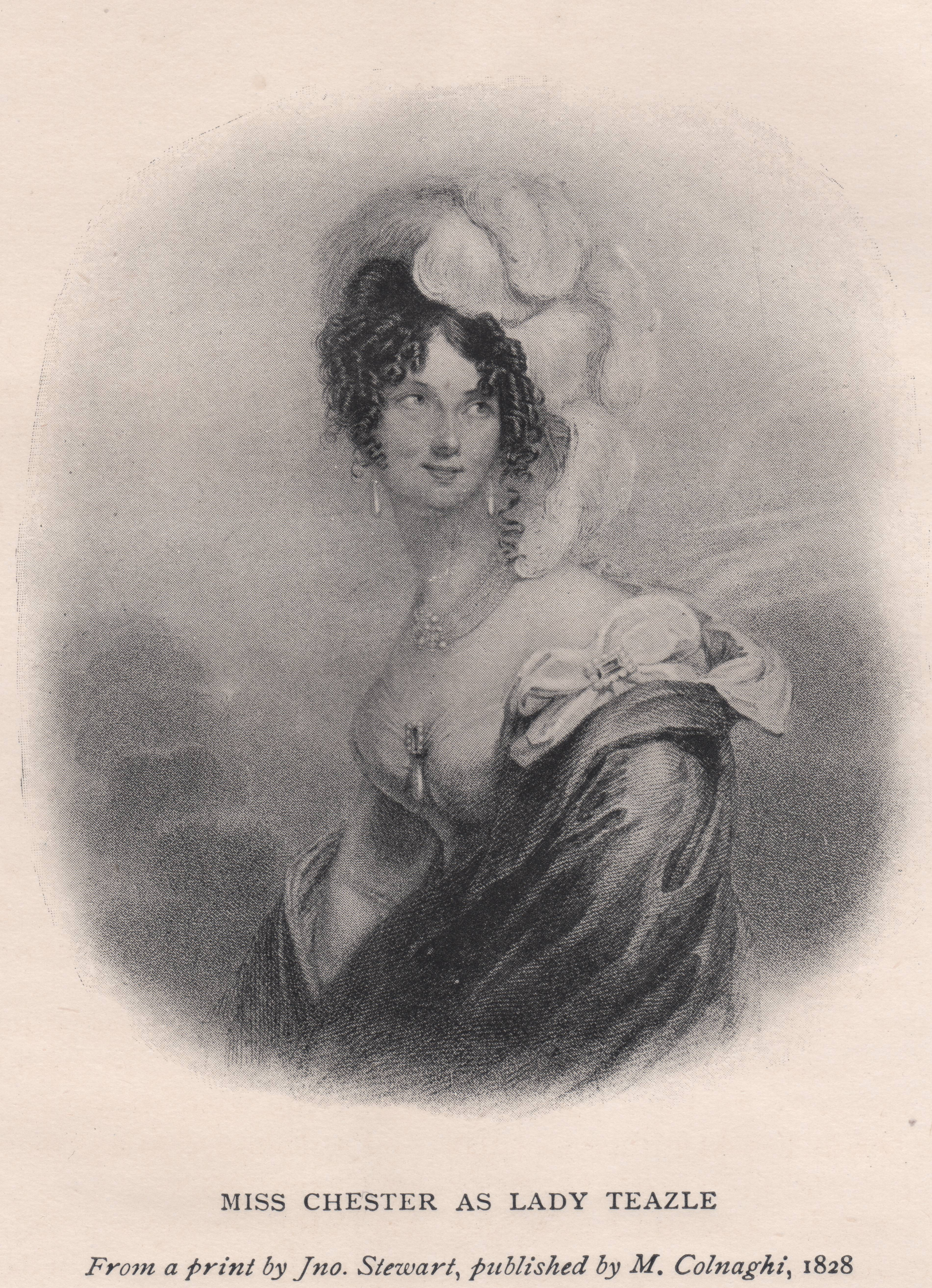 Scanned from The Dramatic Works of Richard Brinsley Sheridan With An Introduction By Joseph Knight And Fifteen Illustrations Oxford Edition Published by Henry Frowde 1906 Oxford University Press Printed by Horace Hart Bookseller label: Boyveau & Chevillet, Paris. Image text: Miss Chester As Lady Teazle. From a print by Jno. Stewart, published by M. Colnaghi, 1828. Book is in the Public Domain in the US and UK Image scanned at 1200 dpi bitmap (colour) then converted to jpeg.